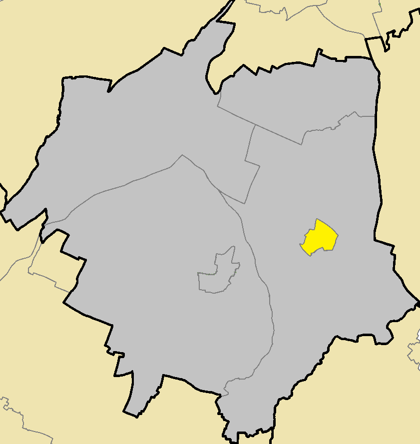 Stavros in Strovolos.